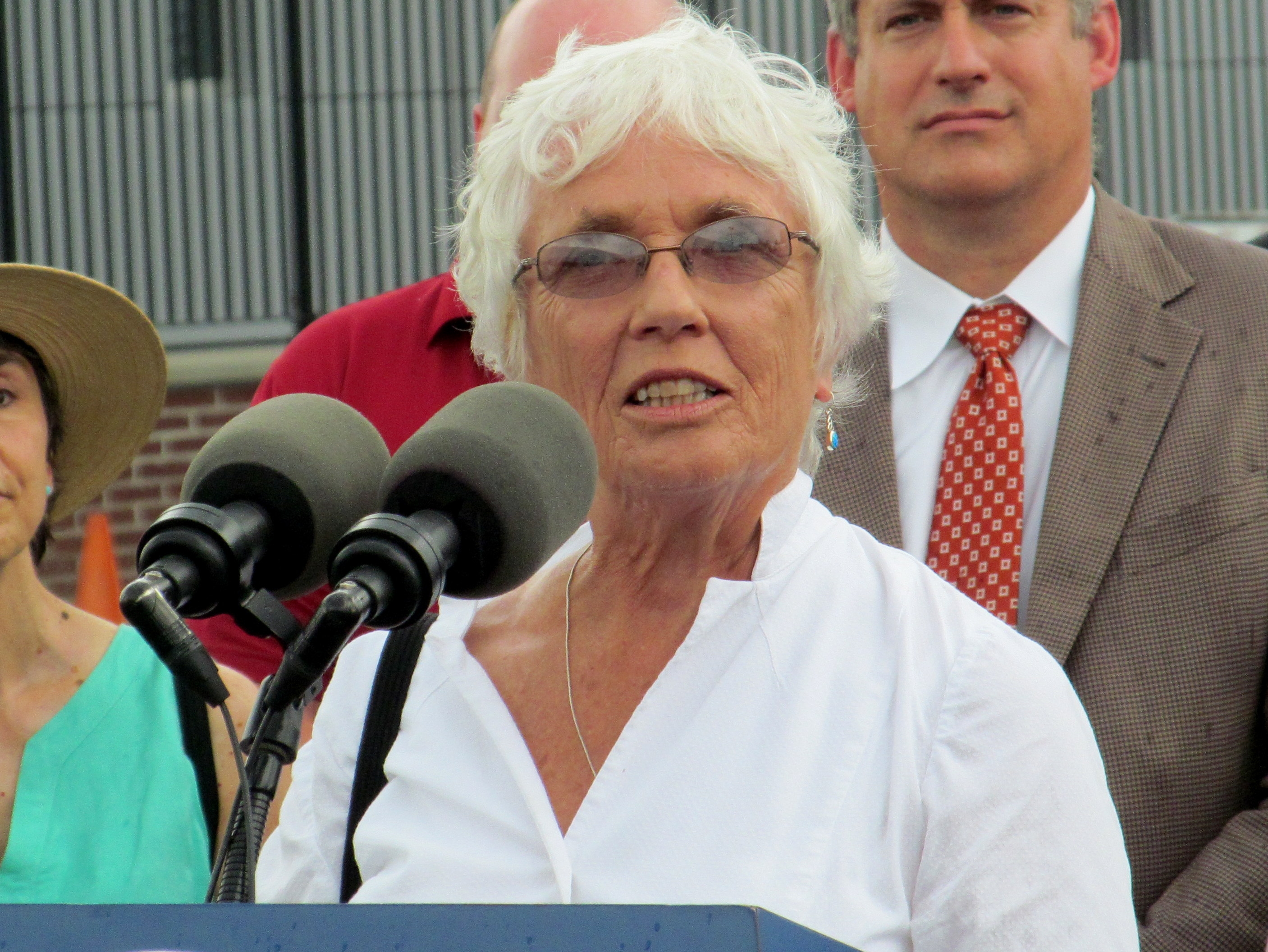 Pat Jehlen speaks at the opening of Assembly station in September 2014